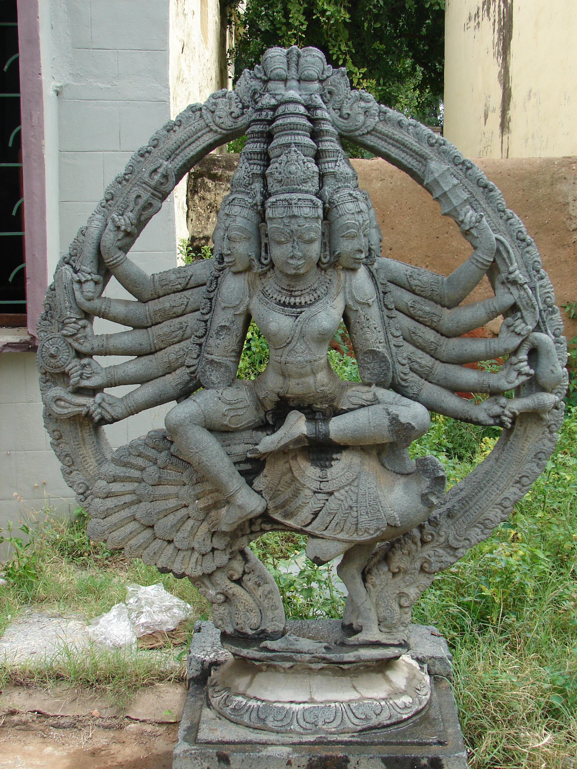 This photograph was taken by me at the Someshvara temple (also spelt Someshwara) in Mulbagal, Kolar district, Karnataka state, India.